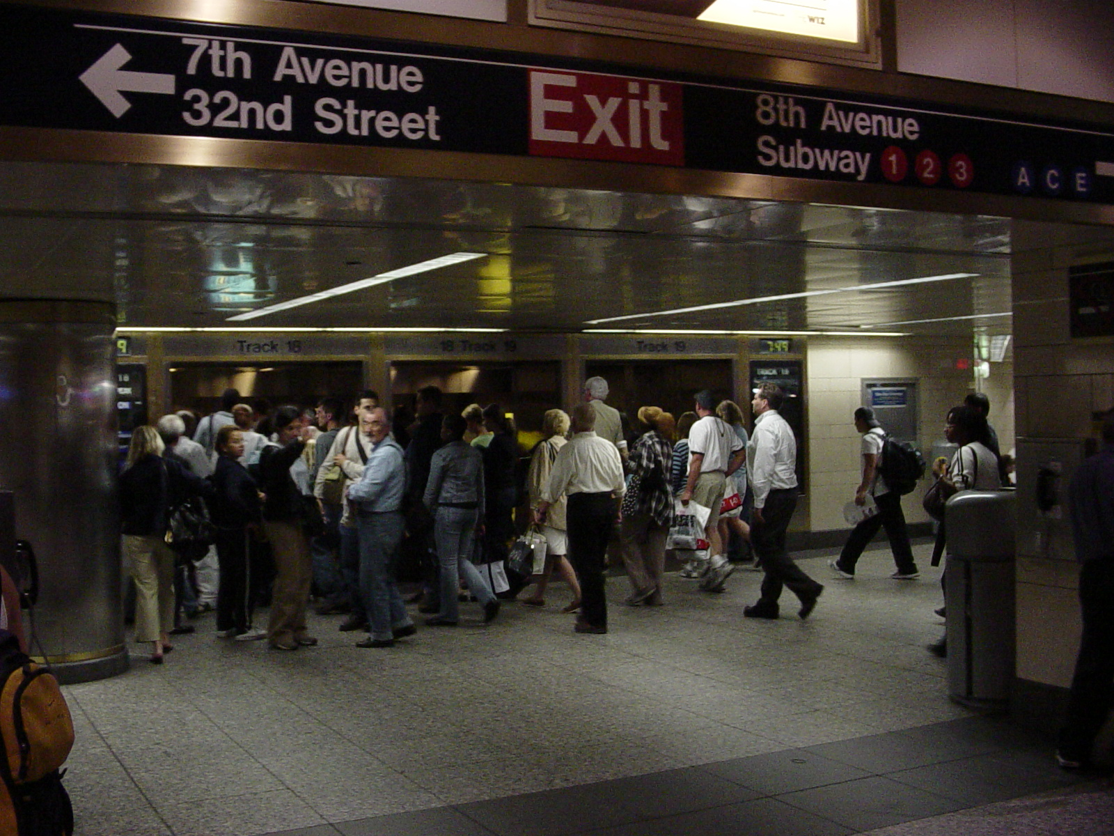 Penn Station